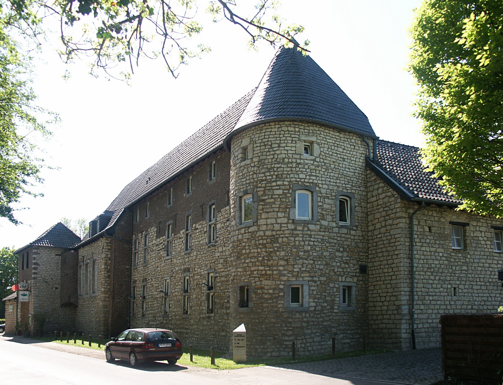 Burg Seffent in Aachen, eastern aspect